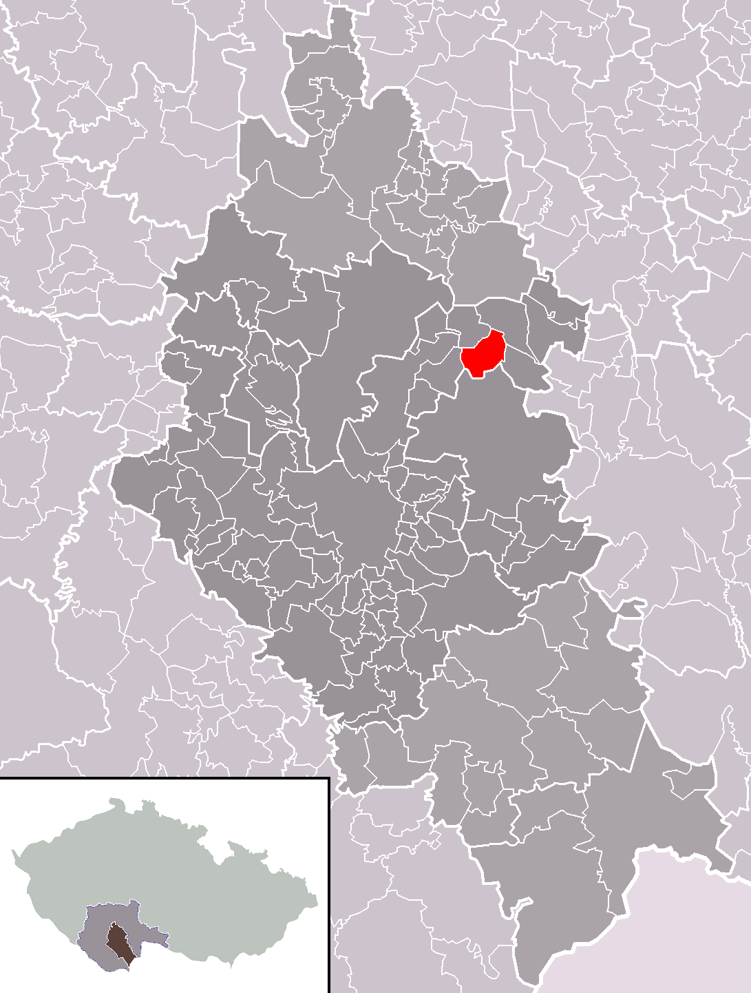 Location of Ševětín municipality within České Budějovice District and administrative area of České Budějovice as a Municipality with Extended Competence.